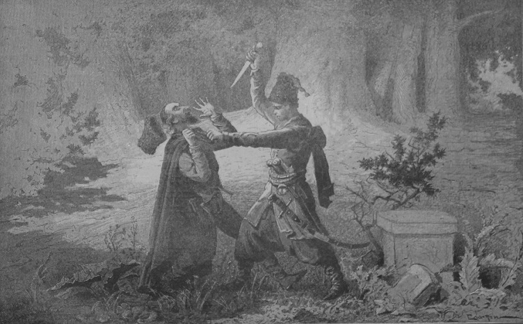 Artwork by Opanas Slastion for book by Taras Shevchenko "Haydamaky" 1886